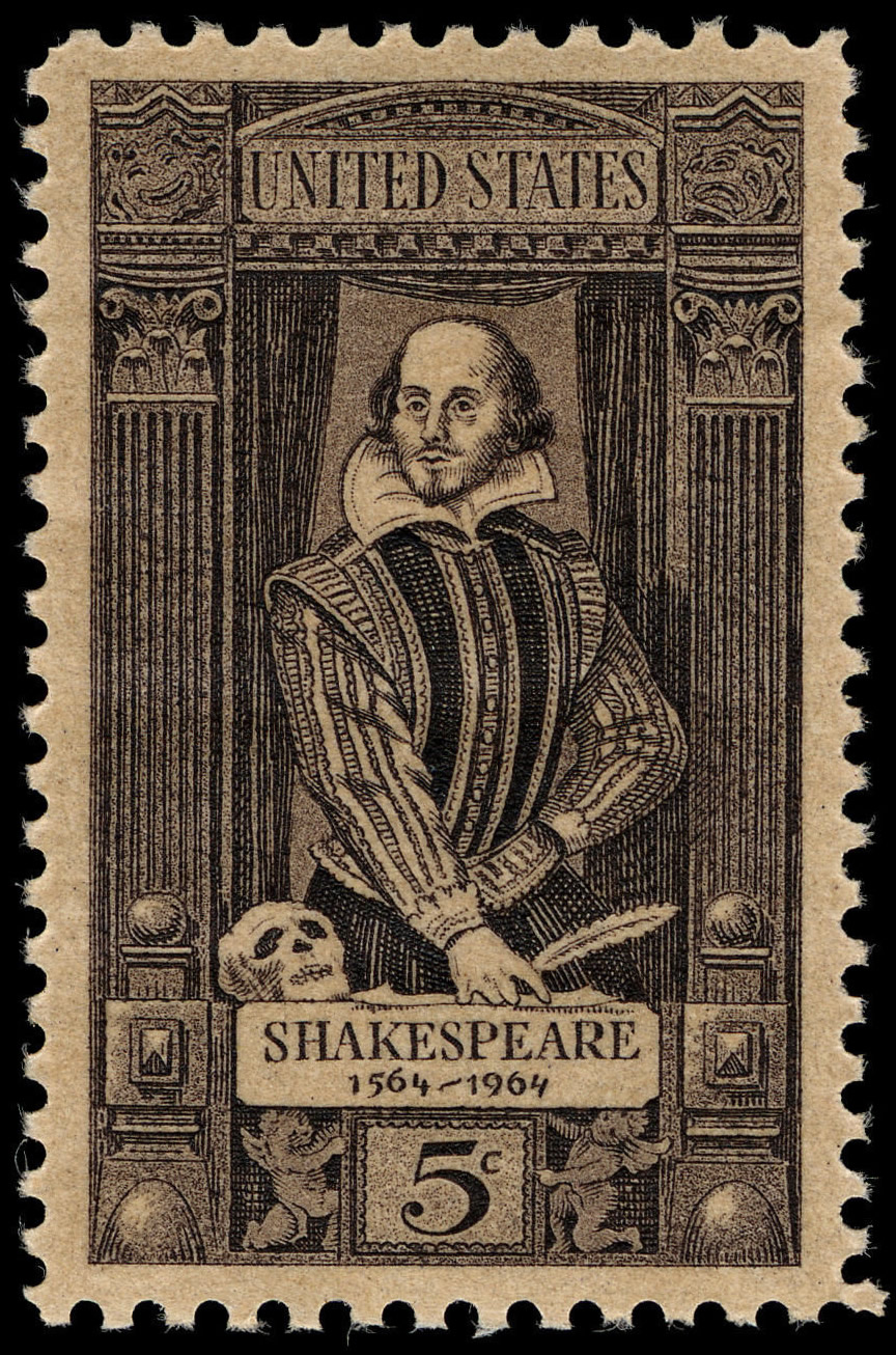 1964 5-cent U.S. stamp honoring William Shakespeare, commemorating the 400th anniversary of the birth of his birth.